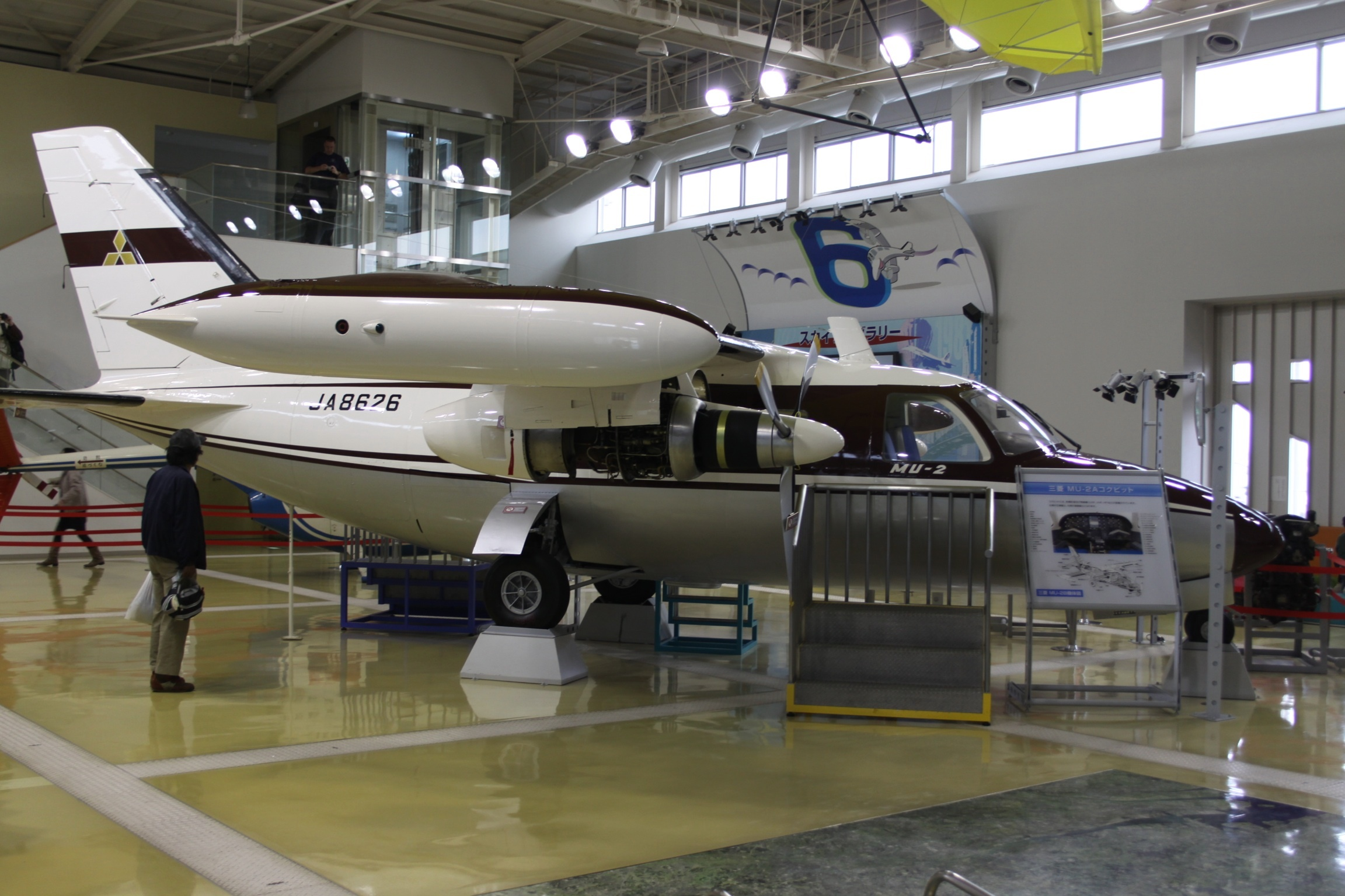 At Nagoya Komaki Airport